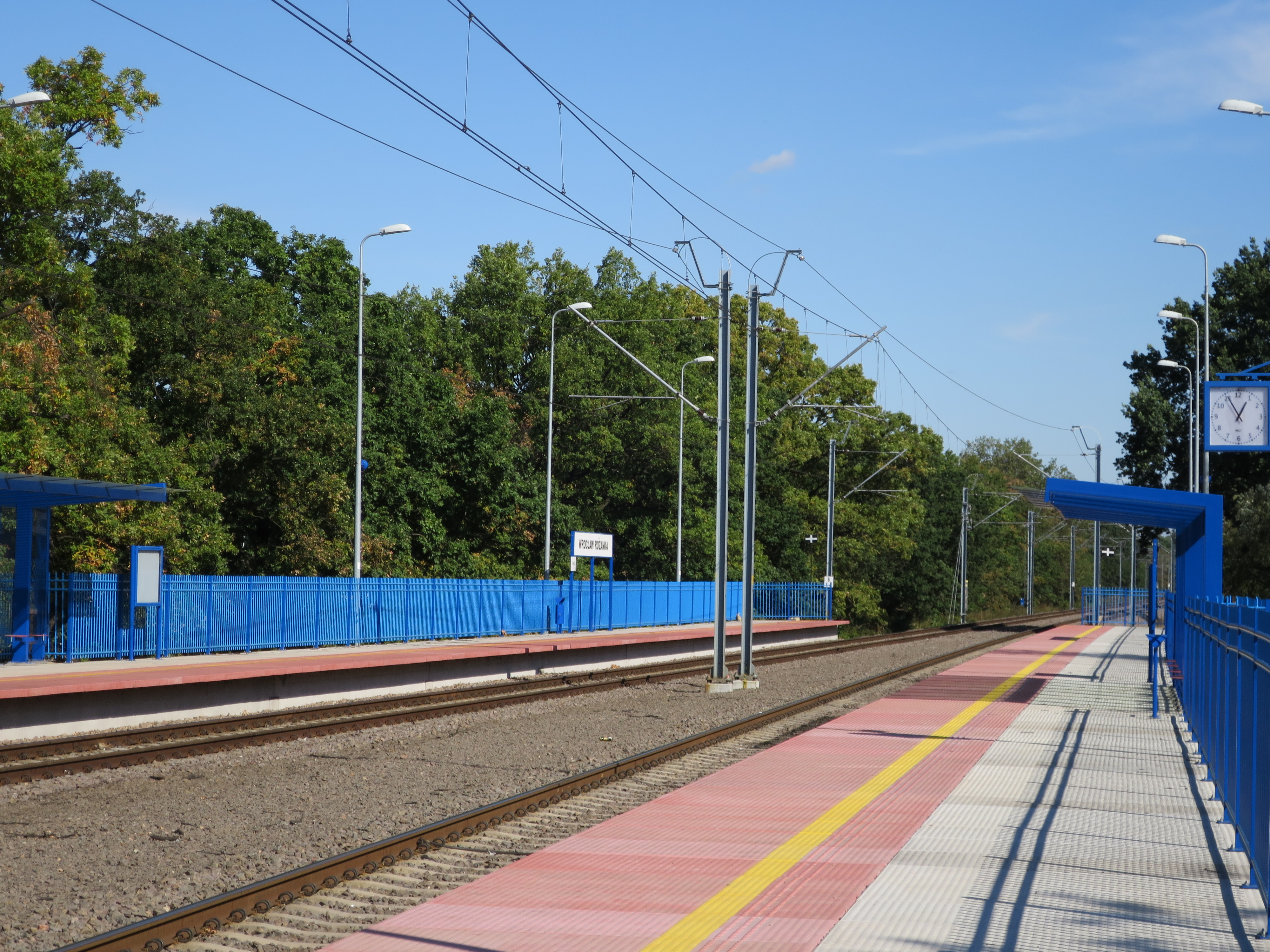 Wrocław Różanka This photo was taken during Railway Wikiexpedition 2015 set up by Wikimedia Polska Association in cooperation with Fundacja Grupy PKP. You can see all photographs in category Wikiekspedycja kolejowa 2015.